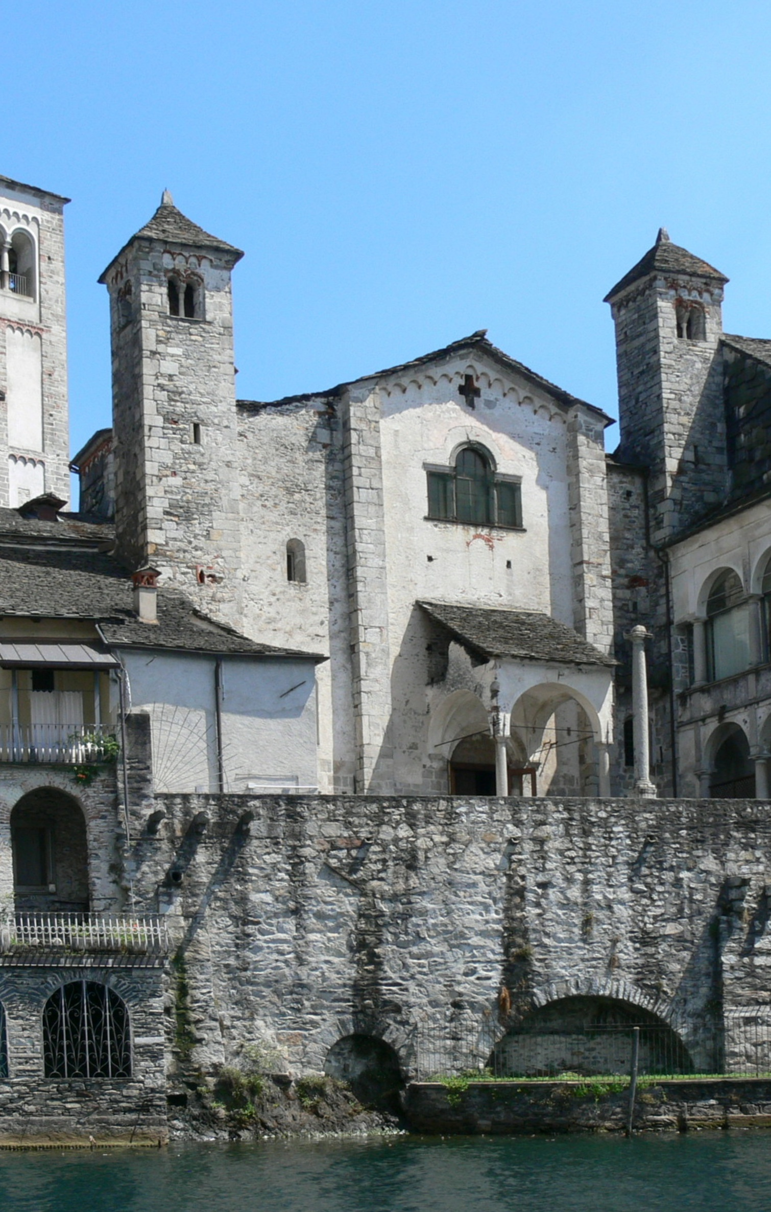 Orta - Basilica San Giulio ( Piedmont ). Facade ( 1150 ).